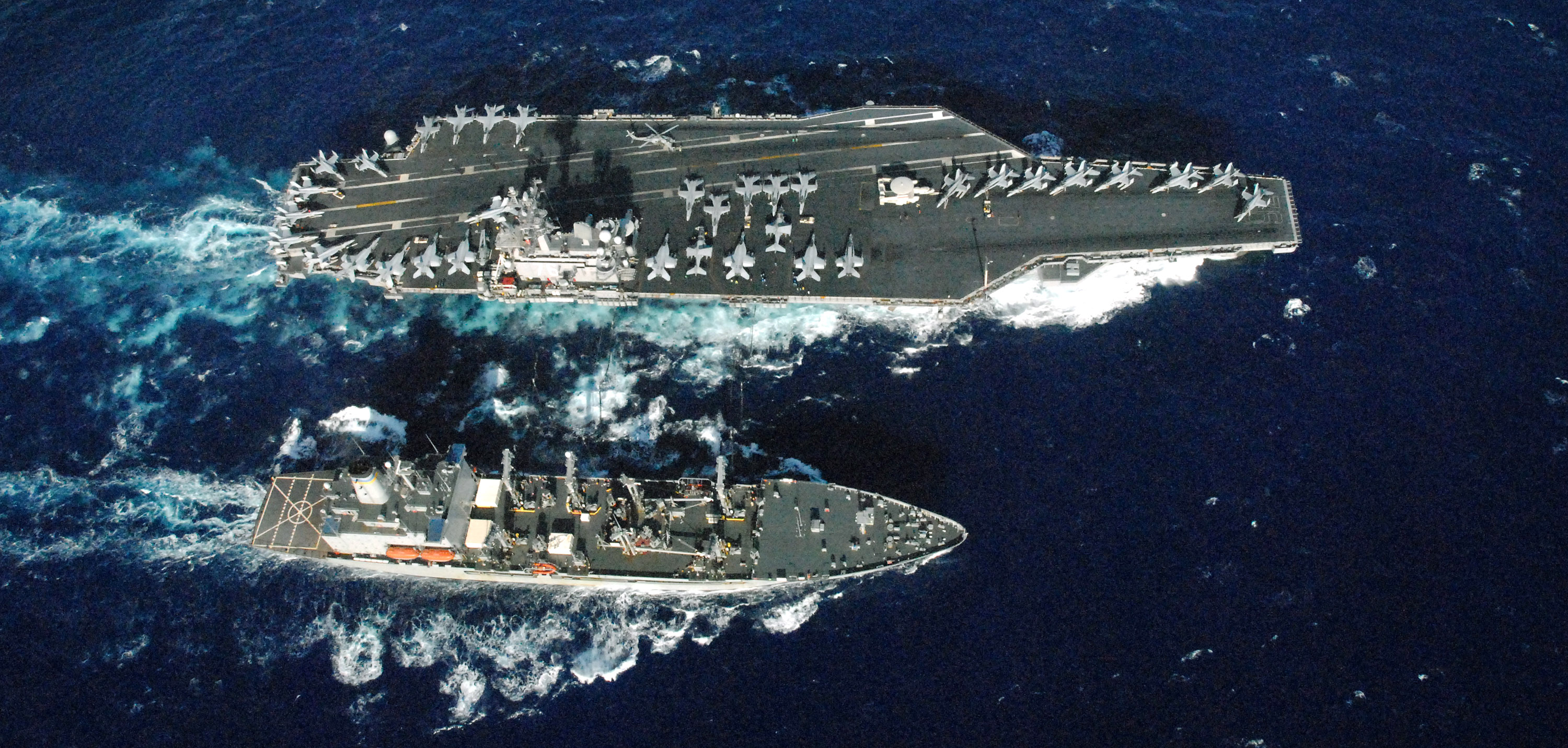 Pacific Ocean (Feb. 15, 2007) - Military Sealift Command (MSC) fleet replenishment oiler USNS Pecos (T-AO 197) transits alongside the Nimitz-Class aircraft carrier USS Ronald Reagan (CVN 76) during a scheduled refueling-at-sea (RAS). The Ronald Reagan Carrier Strike Group is currently underway on deployment in support of U.S. military operations in the Western Pacific. U.S. Navy Photo by Mass Communication Specialist 3rd Class Sarah Foster (RELEASED)